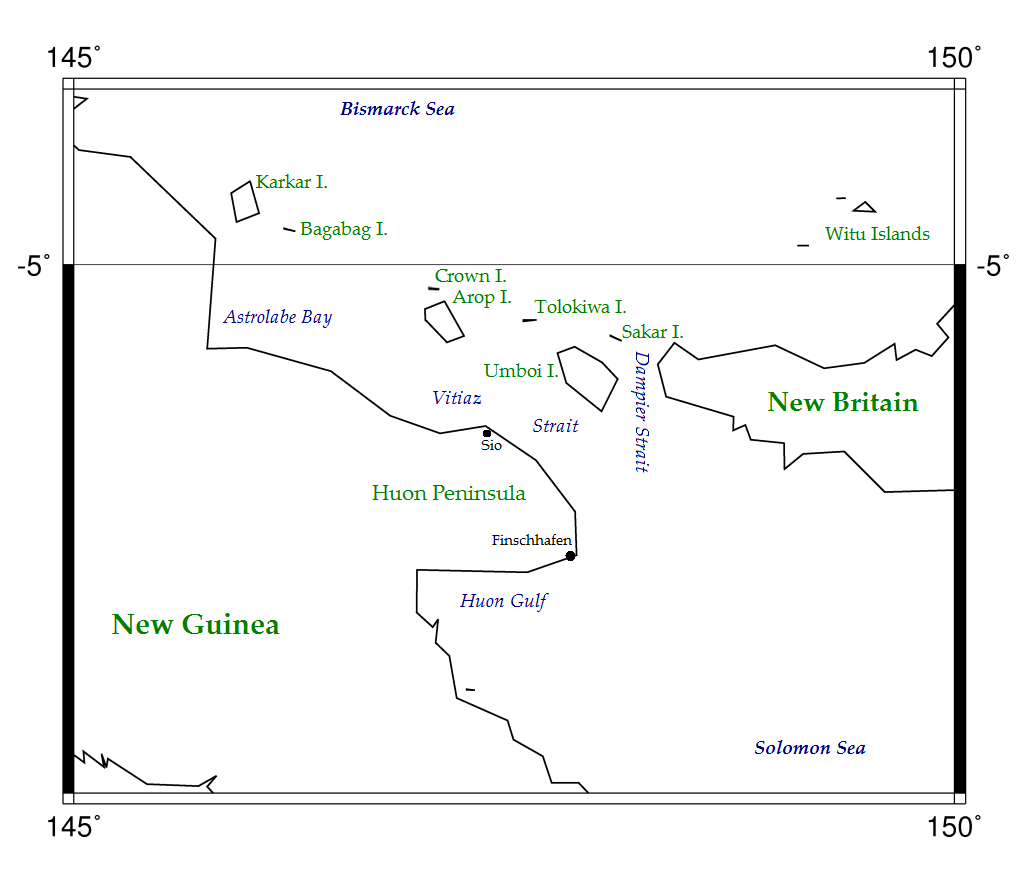 Map created using GMT 145/150 approx -3/-9 with certain features named